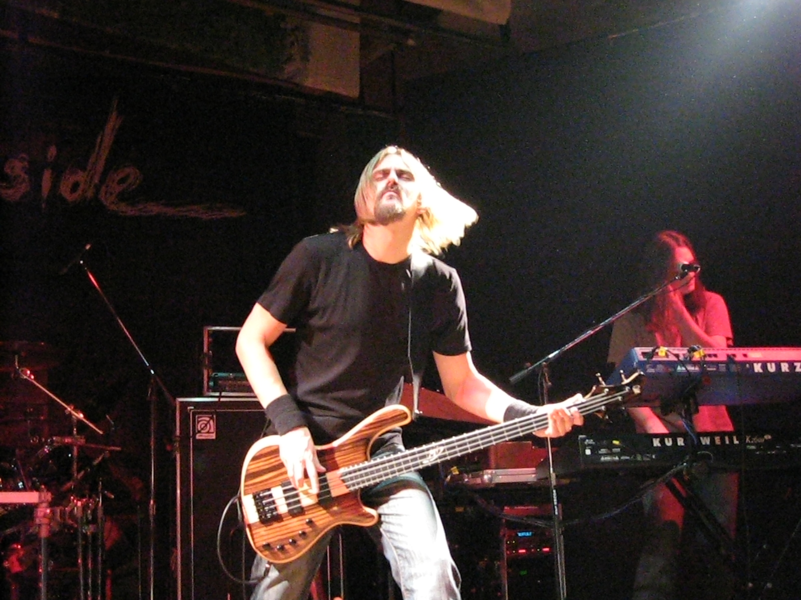 Riverside at Lydney Town Hall. 2007-11-29.